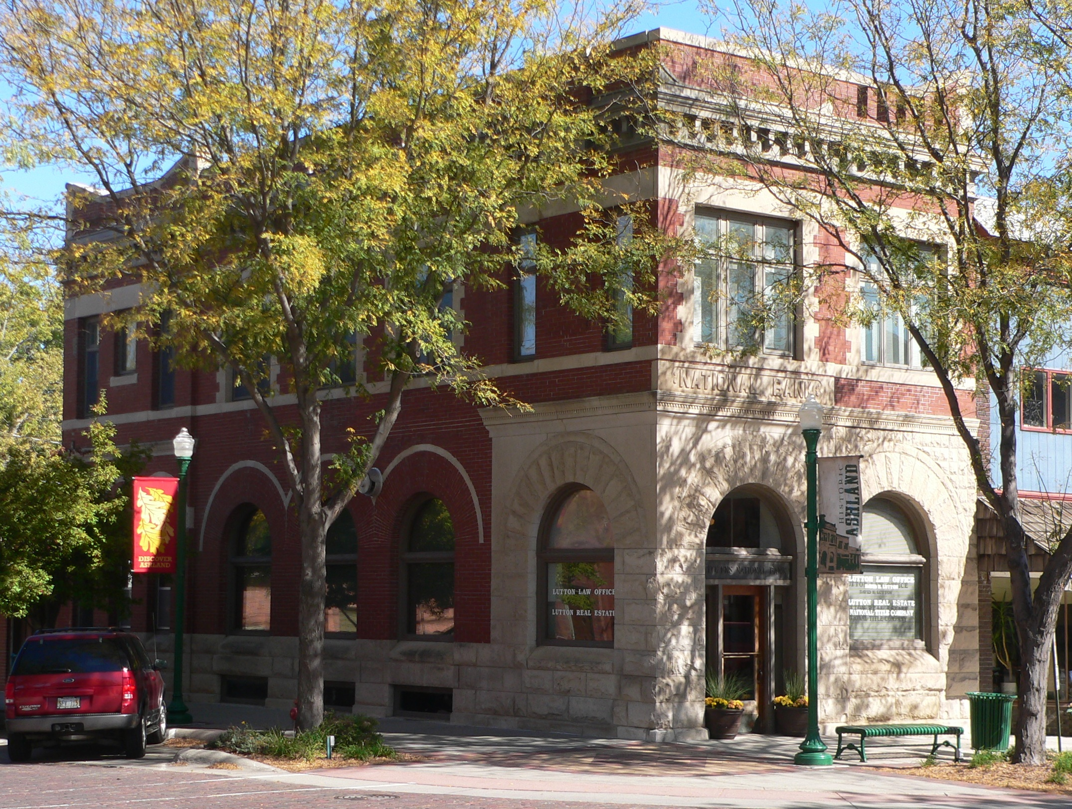 National Bank of Ashland, located at northeast corner of 15th and Silver Streets in Ashland, Nebraska. The building is listed in the National Register of Historic Places.